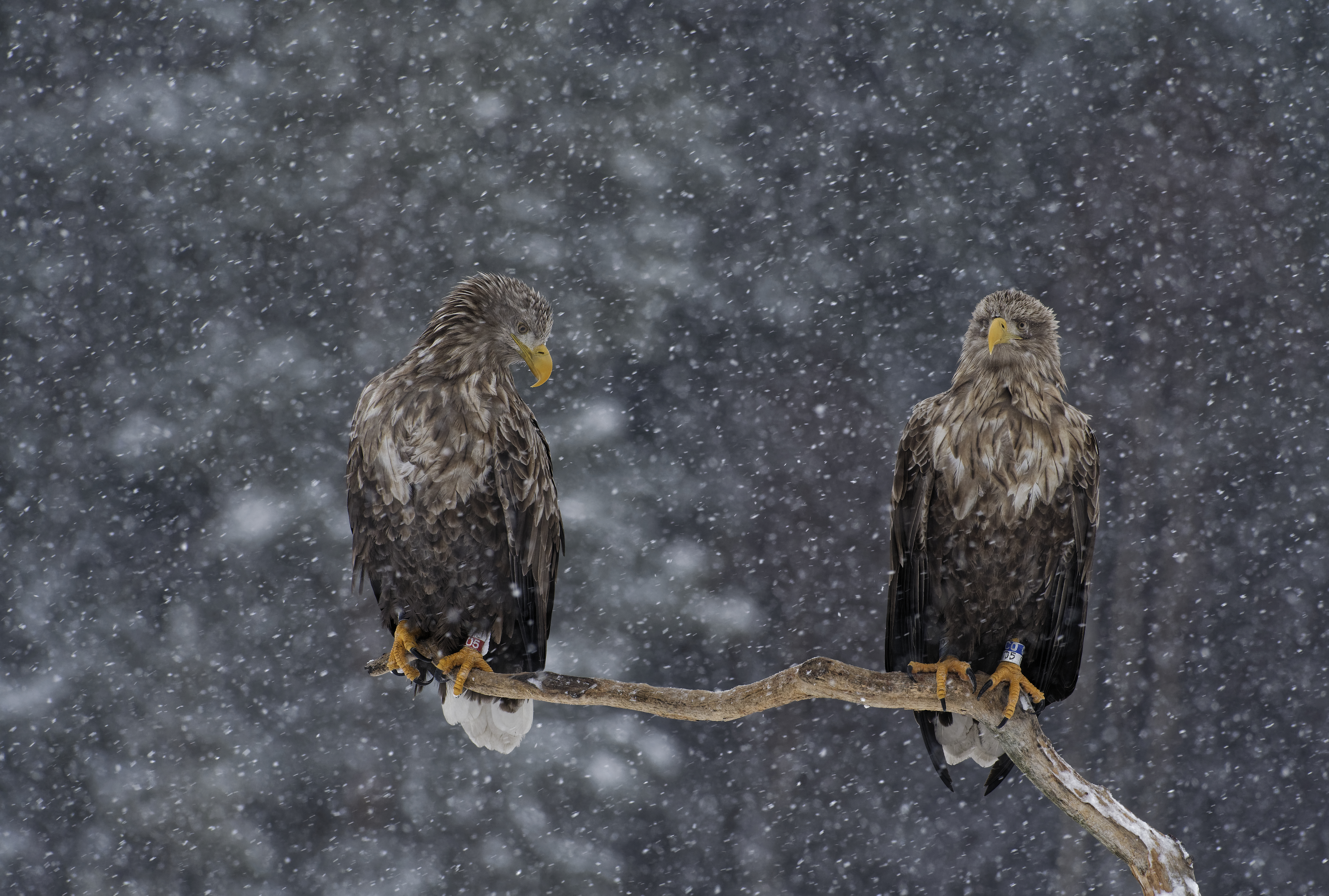 Two white-tailed sea eagles (Haliaeetus albicilla), photographed during snowfall in Färnebofjärden National Park, Sweden.